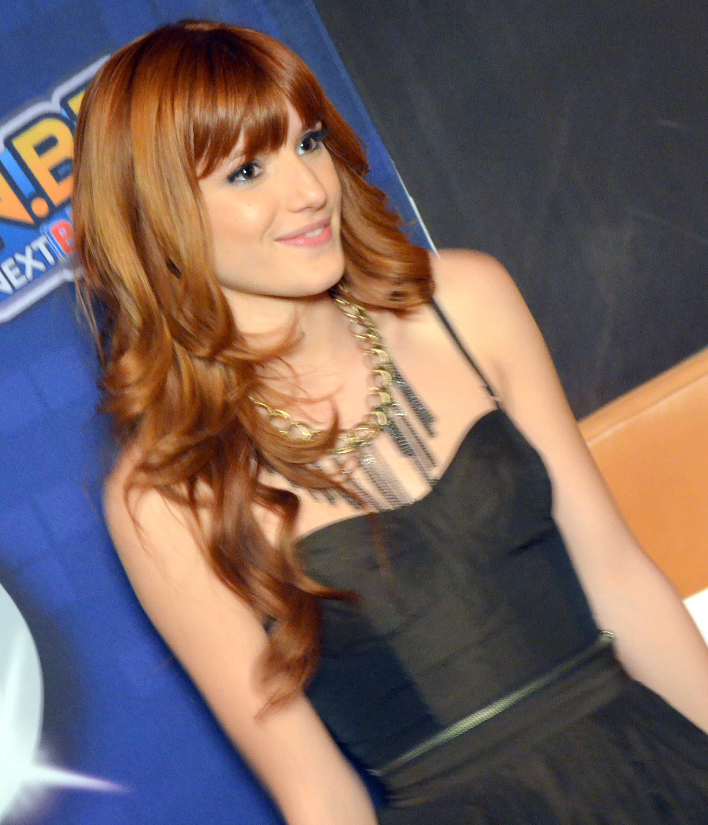 Bella Thorne at the Radio Disney's Season 4 "N.B.T." Winner Finale Concert 2011.